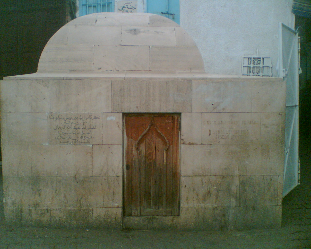 Tomb of Abdullah Torjman (Anselm Turmeda) at the entrance of the souk essakajine